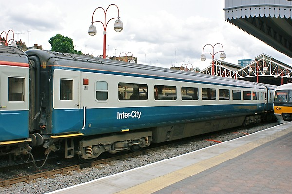 BR Mk.IIIa TSO No.12014 of Cargo-D in BR Inter City blue & grey livery, on hire to Wrexham, Shropshire & Marylebone Railway. Built by BREL (Derby) in 1975. At Marylebone, 07/08.